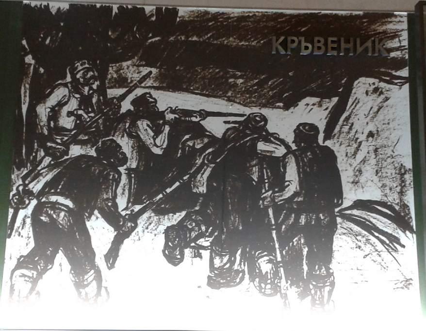 Kravenik